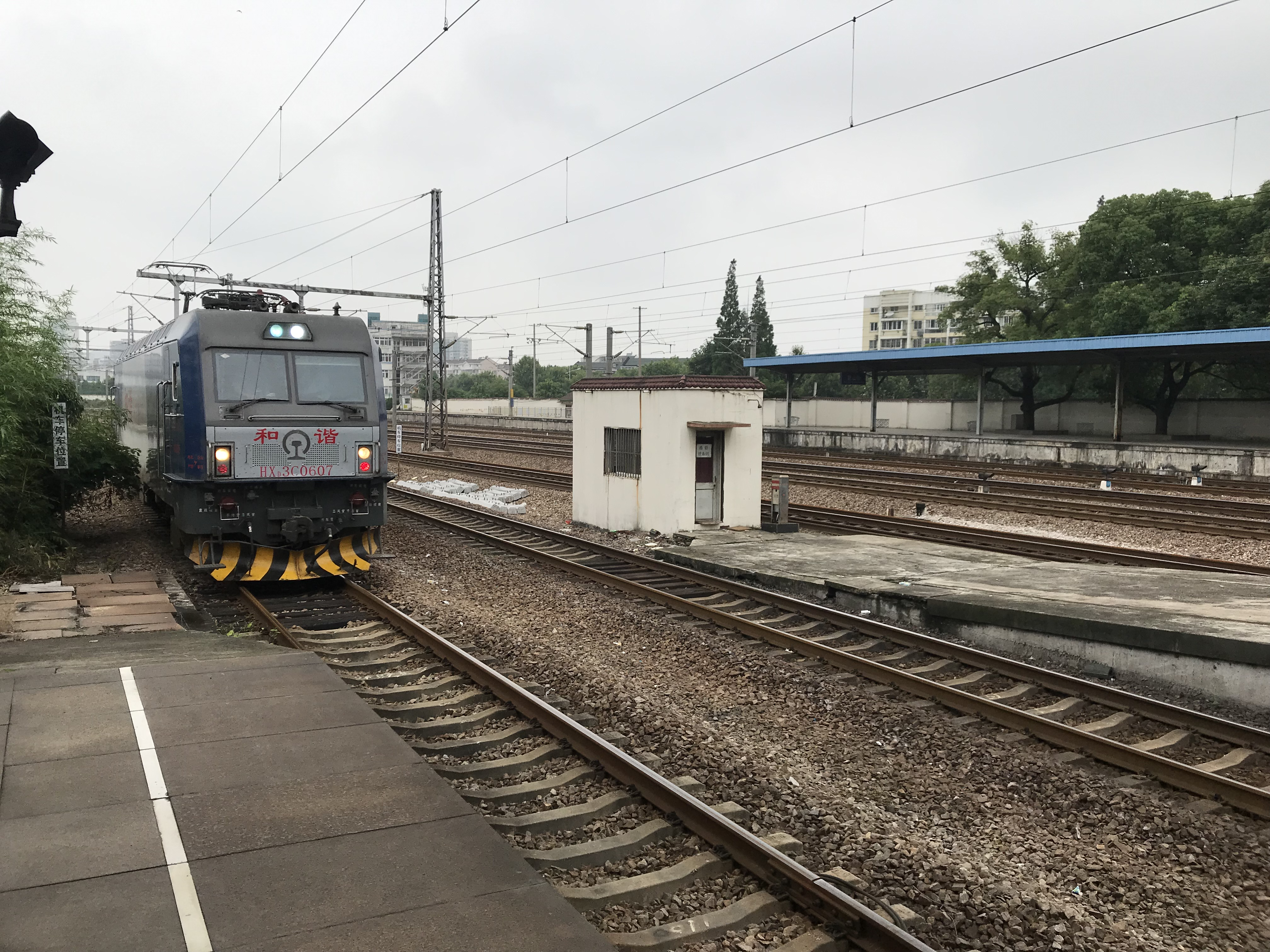 With the administration and PR people taking photos